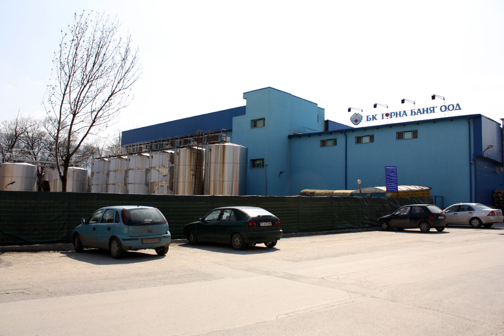 Gorna Banya Mineral Water Bottling Plant